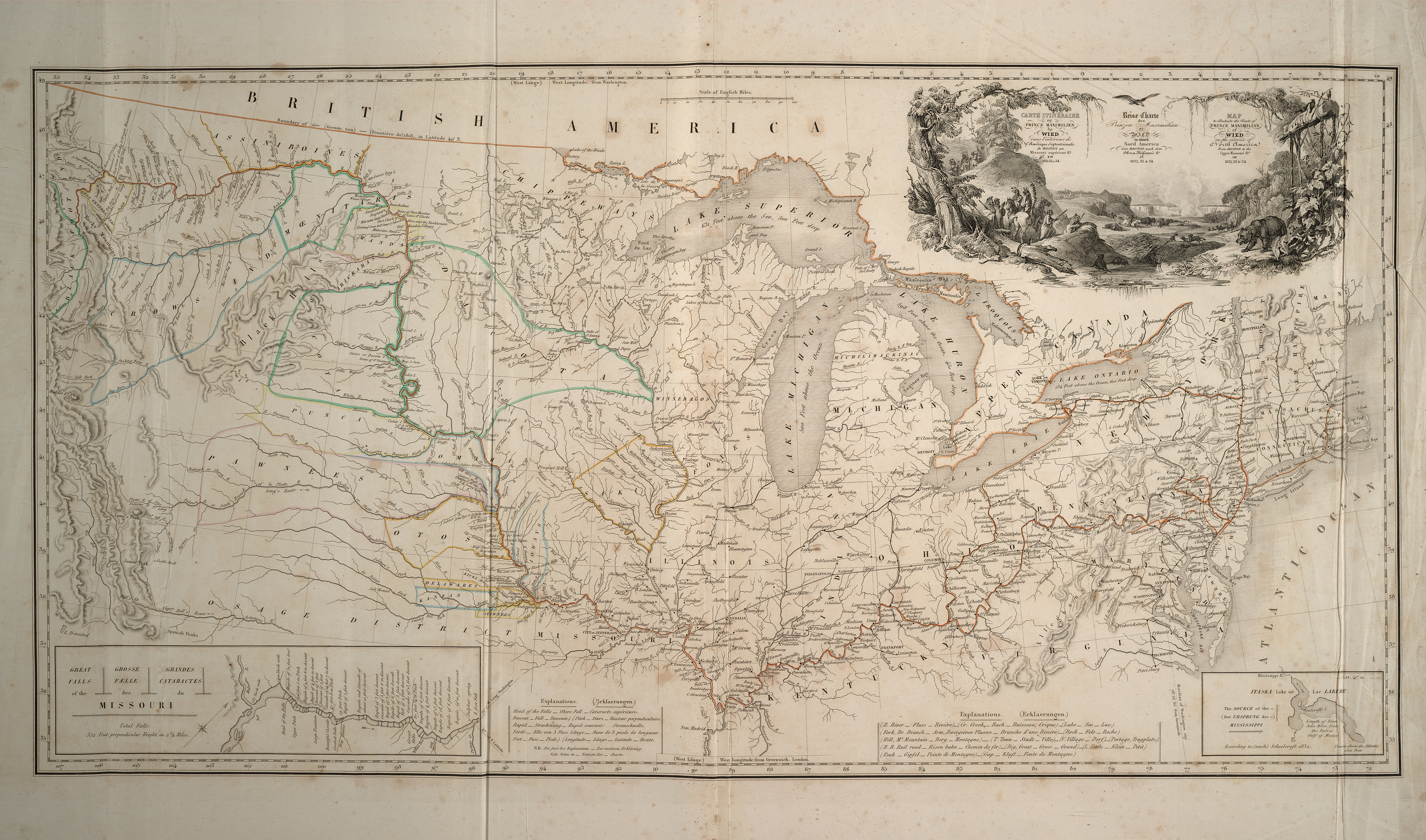 The map shows the northern states of the United States of America in 1832. At that time the rivers of the Mississippi and the Missouri formed the border between the east settled area of the Americans and the western area of the Indians. The areas of the different Indian tribes and the villages and towns of Americans are inscribed on the map. An orange line indicates the northern boundary of America. The red lines from Boston to the upper Missouri and back to New York marked the history of the Expedition of the scientist Maximilian zu Wied-Neuwied and the painter Karl Bodmer in the years 1832-1834. The map was first published 1839 by Maximilian zu Wied-Neuwied in Reise in das innere Nord-America in den Jahren 1832 bis 1834, 2 Textbände und 1 Bildatlas mit Illustrationen von Karl Bodmer, J. Hölscher, Koblenz 1839–1841. The publication happened in the English edition four years later: Maximilian Prince of Wied’s Travels in the Interior of North America, during the years 1832–1834; Translation H. Evans Lloyd; Achermann & Comp., London 1843–1844.